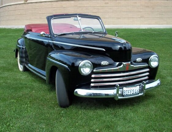 The 1946 Ford Super De Luxe convertible used in Back to the Future by Biff Tannen (played by Tom Wilson).